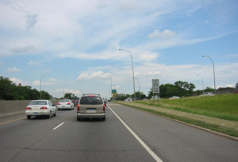 A traffic jam on northbound Interstate 35W (Minnesota) (center) where it merges with eastbound Minnesota State Highway 62 (right). This is outside of normal rush hour; the picture was taken on a Saturday afternoon.